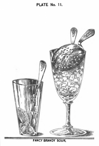 Fancy Brandy Sour.